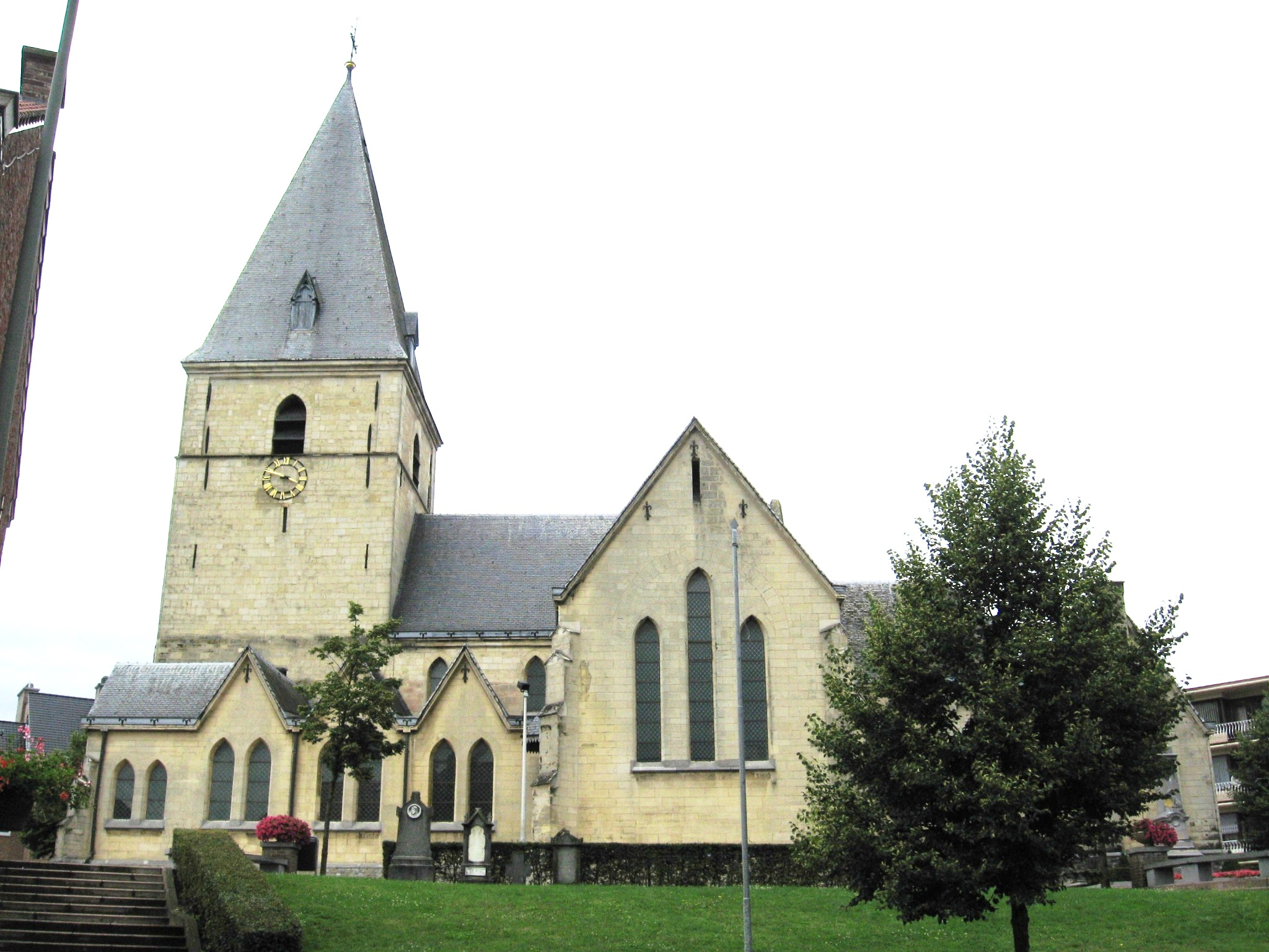 Church of the Assumption of Our Lady in Zutendaal, Limburg, Belgium